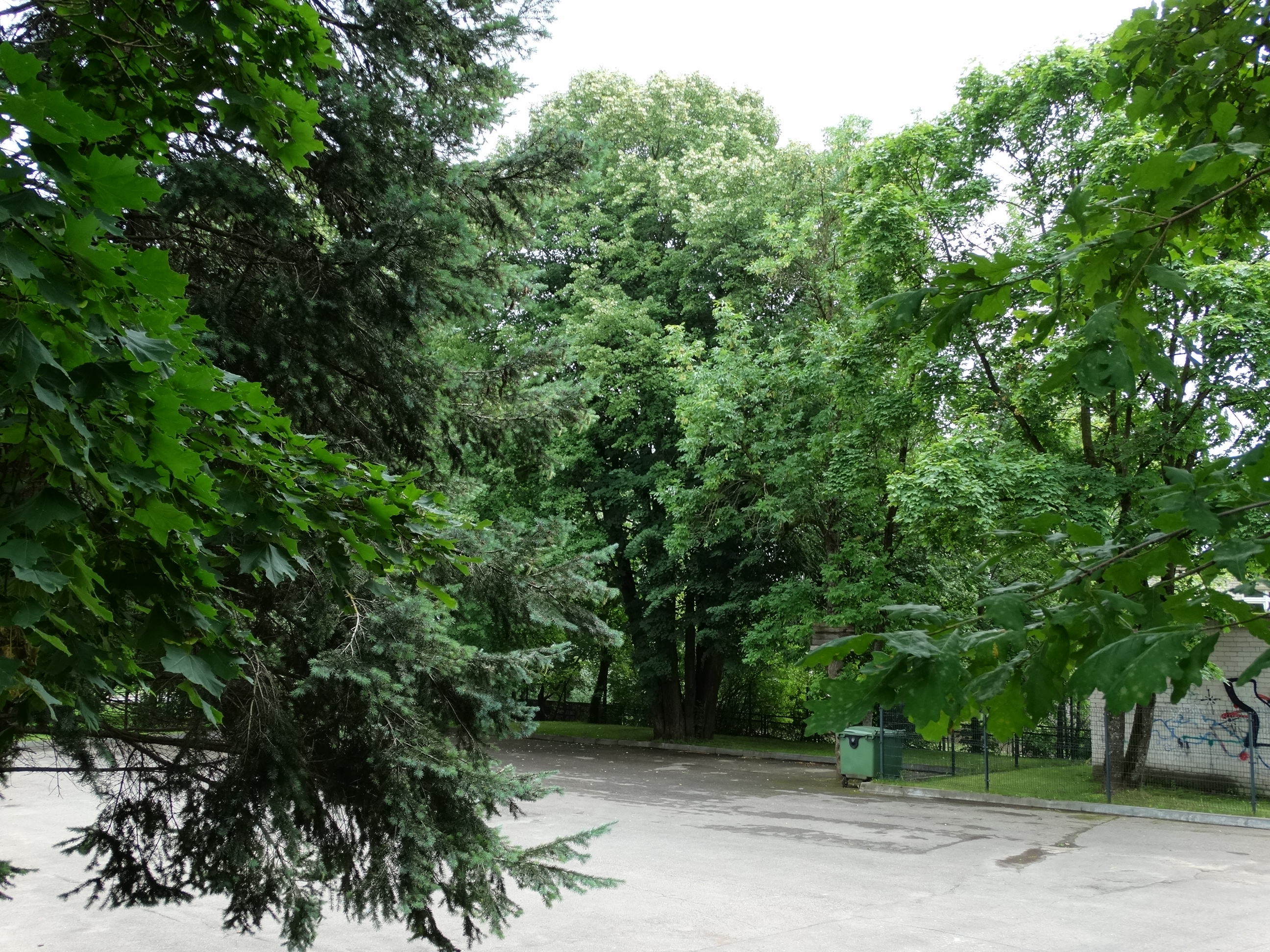 6-trunk lime tree in Žvėrynas, street Sėlių, Vilnius, Lithuania